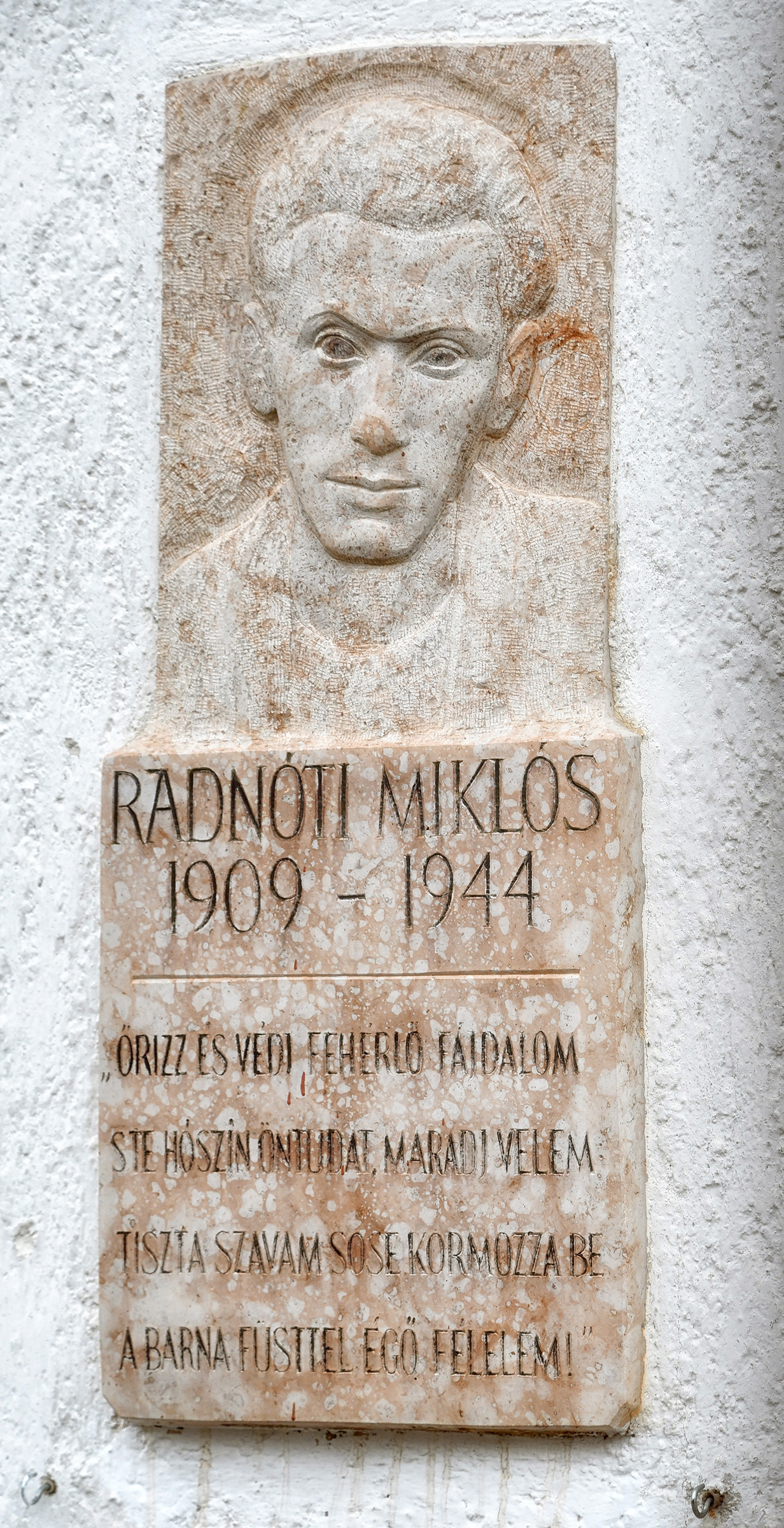 Plaque to Miklós Radnóti in Abda, Hungary